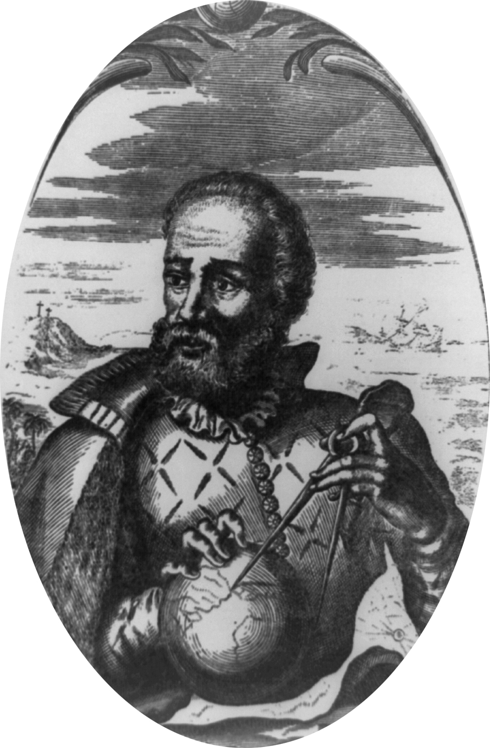 Ferdinand Magellan, Portuguese maritime explorer.